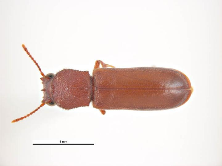 Acantholyctus cornifrons.